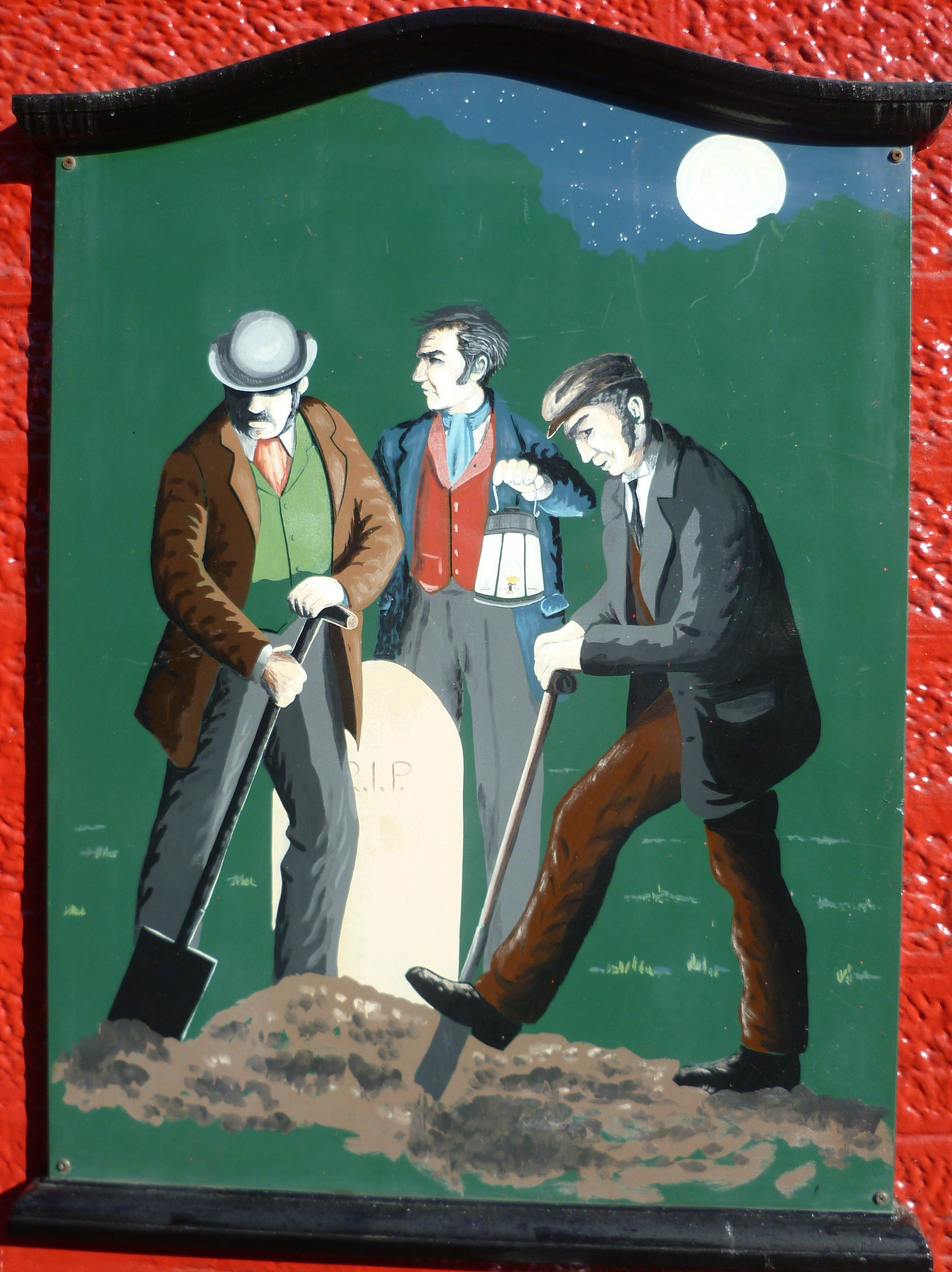 A painting of body snatchers at work on the wall of the Old Crown Inn in the High Street of Penicuik in Midlothian. The inn is about 100 yards from the local parish kirkyard.